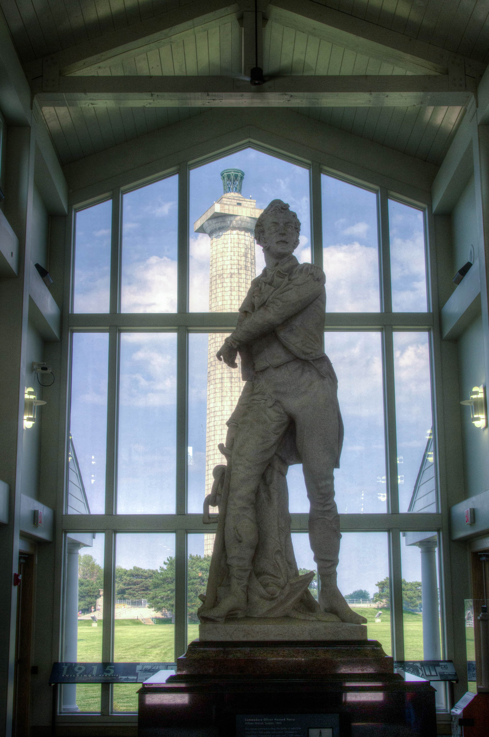 Oliver Perry (1860) by William Walcutt. The memorial column can be seen through the window behind the statue of Commodore Perry.